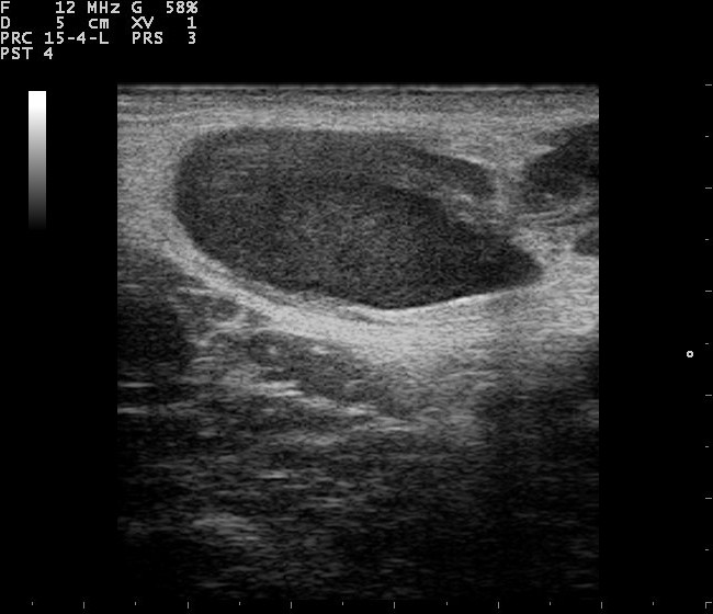 Ultrasound images of lymph nodes